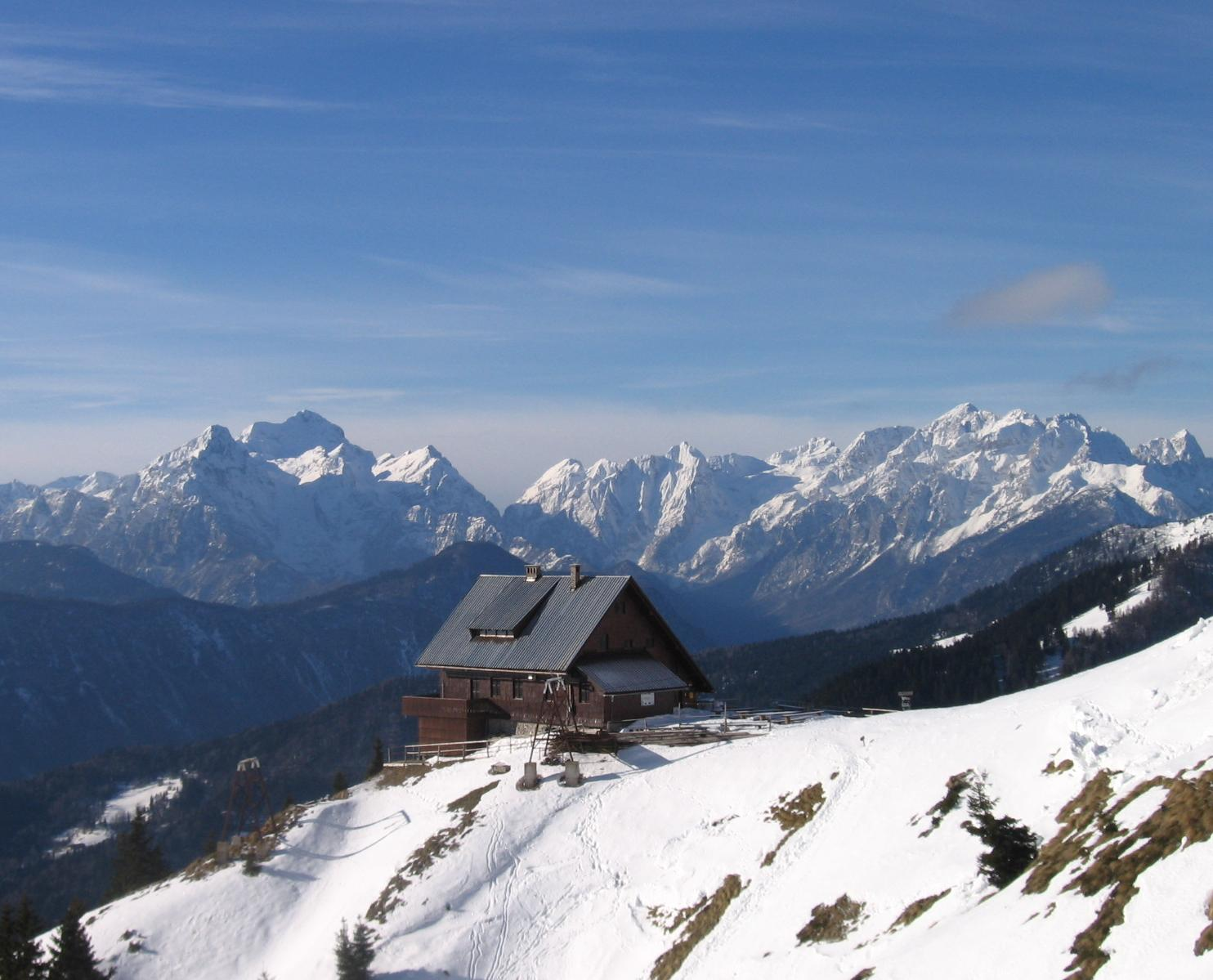 Hut on Golica in Karavanke/Karawanken, with background of Julian Alps (Triglav and Škrlatica), Slovenia.